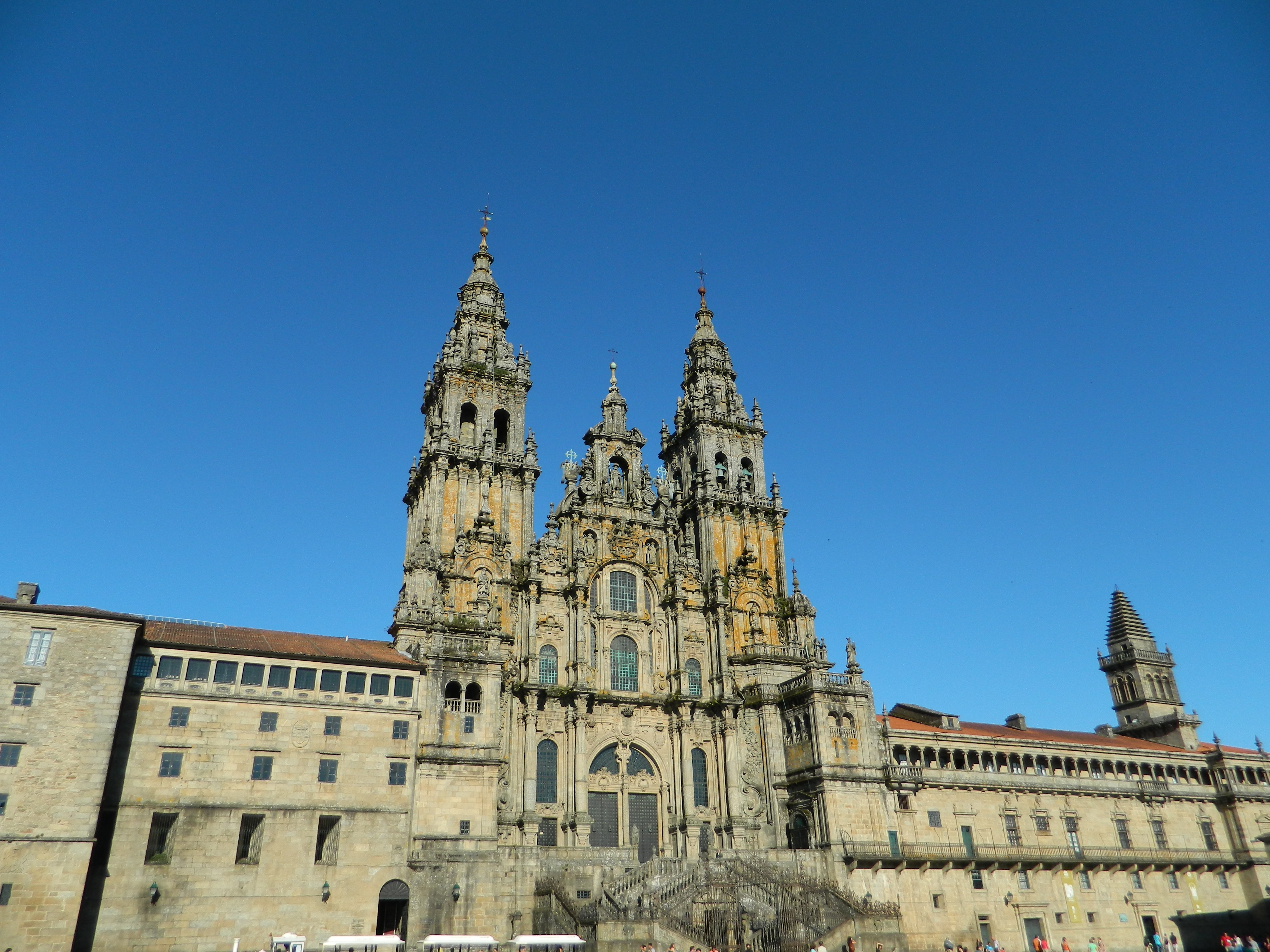 Catedral de Santiago de Compostela